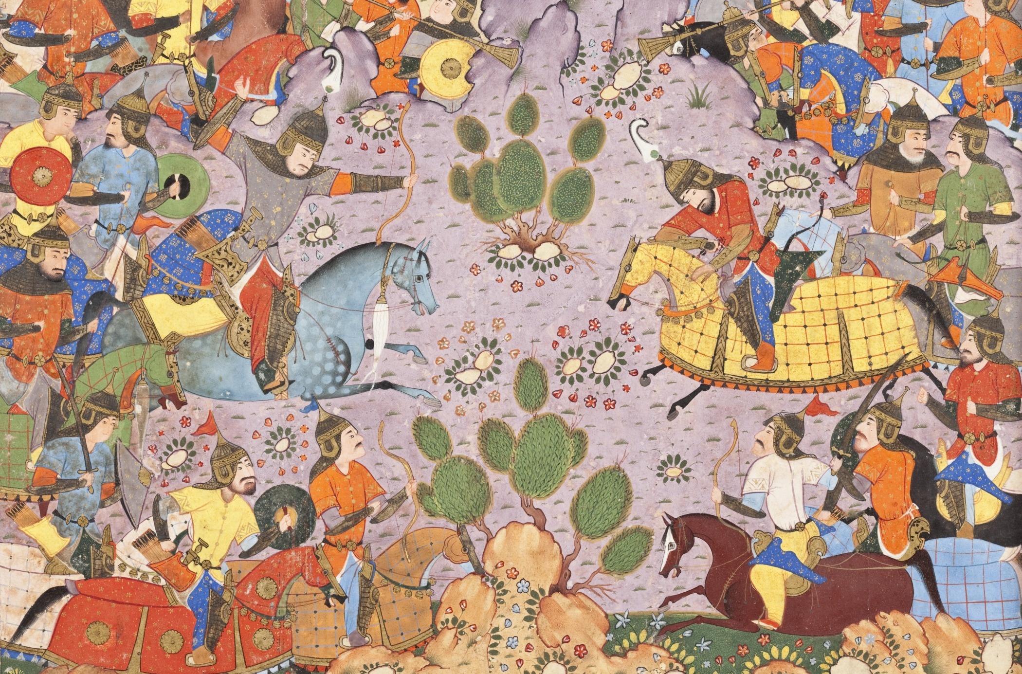 Iran, Shiraz, circa 1560 Book: Shahnama (Book of Kings) of Firdawsi Manuscripts Opaque watercolor heightened with gold and silver on paper Purchased with funds provided by Camilla Chandler Frost and Karl H. Loring with additional funds provided by the Art Museum Council through the 2009 Collectors Committee (M.2009.44.1) Islamic Art